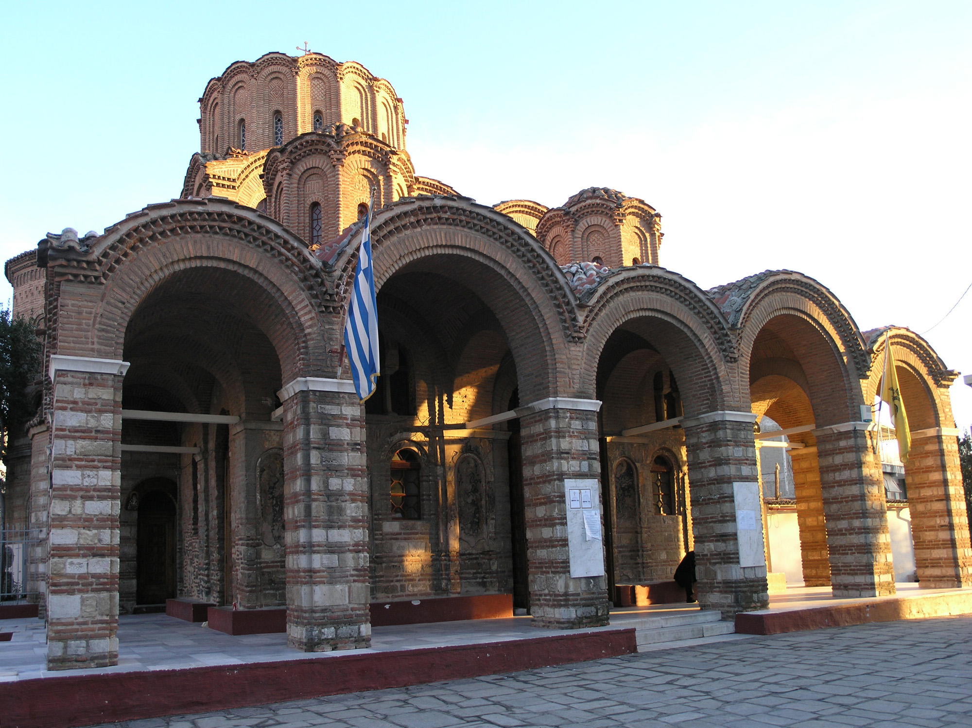 Byzantine church of Prophitis Ilias in Thessaloniki : West facade and stoa. Ca. 1360-1370. Photograph taken by Marsyas 10:28, 27 February 2006 (UTC)